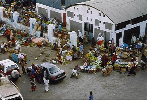 Market, centre of Djibouti